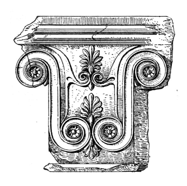 Pile capital from Megara Hyblea Die Baukunt Der Griechen fig 310